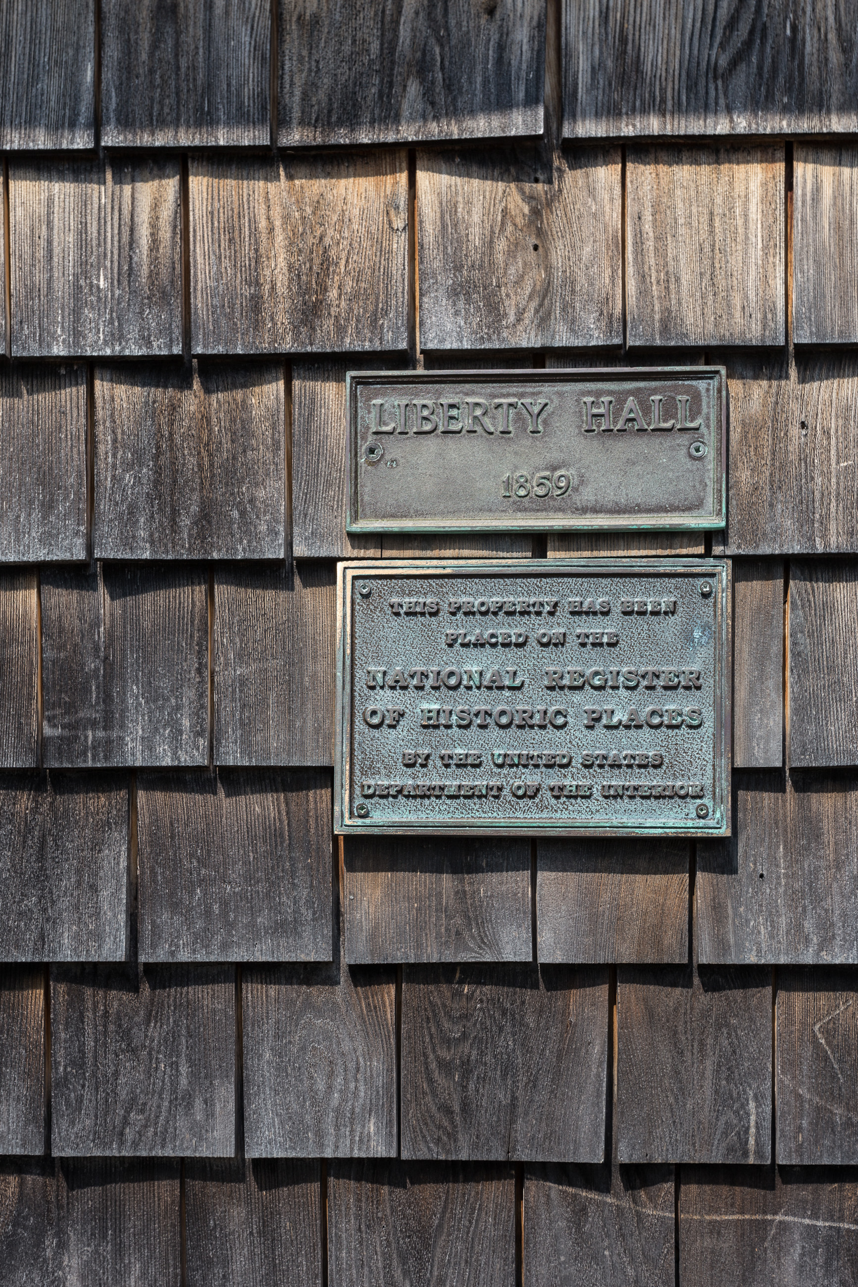 Liberty Hall is a historic building on Main Street in the Marstons Mills village of Barnstable, Massachusetts.